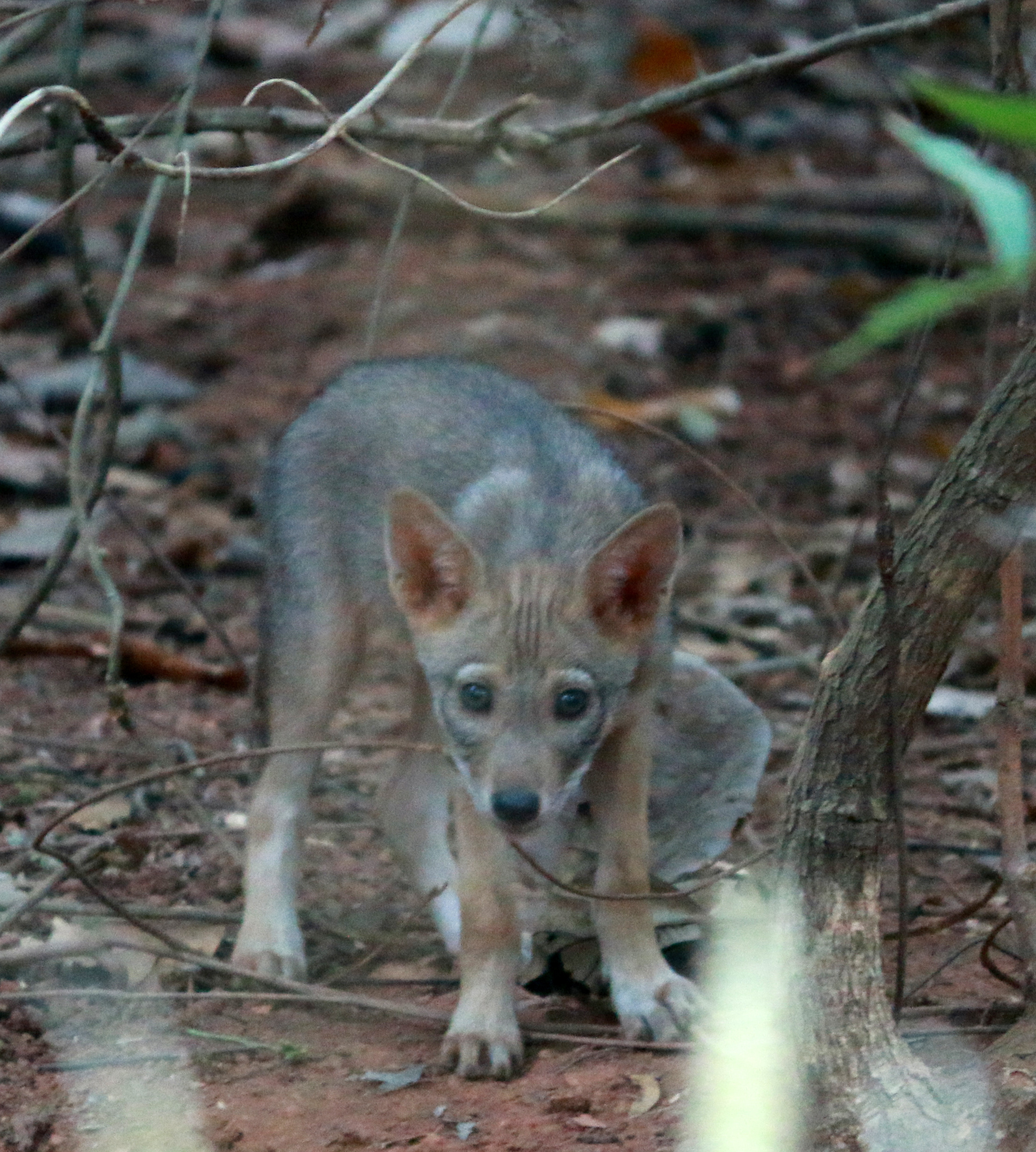 കുറുനരി,Golden Jackal or Indian Jackal, canis aureus indicus